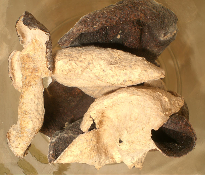 Raw materials of Chinese soup - 陳皮/果皮